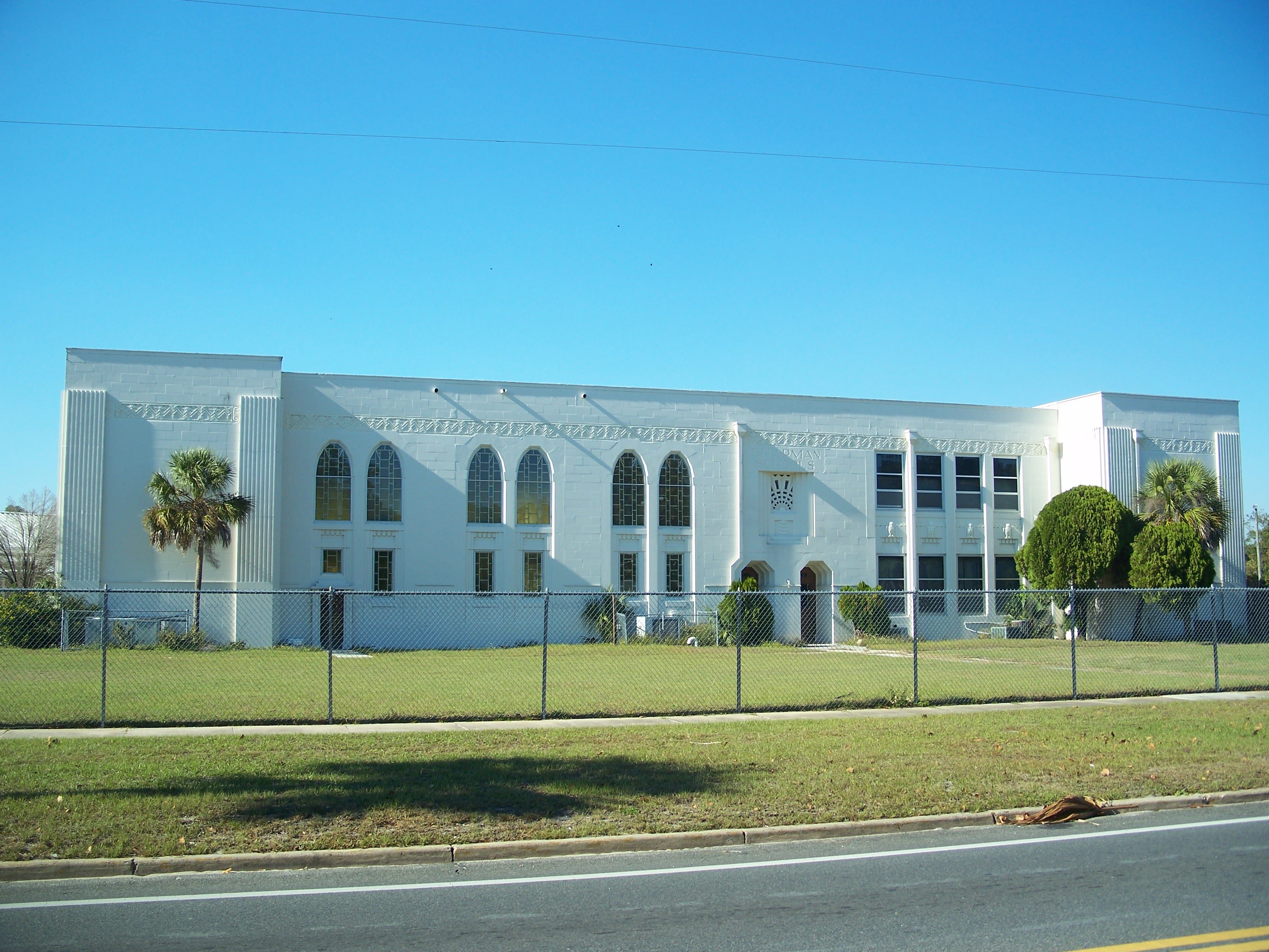 Apalachicola, Florida: Apalachicola Historic District: Chapman Elementary School